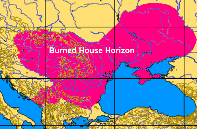 This map shows the geographical extent of the cultural phenomenon, lasting from roughly 6000 B.C. to 2500 B.C., of some Neolithic European societies that practiced a ritualistic routine burning of their entire settlements, which is known as the Burned House phenomenon. This is my own work. I used a section of the map located at File: Europe 34 62 -12 54 blank map.png as the foundation, and obtained the data for the shaded area of the map from a map appearing on page 101 of the 2005 article Weaving house life and death into places by Dr. Ruth Tringham, professor of Archaeology at the University of California, Berkeley. I used Microsoft Paint to create this map.